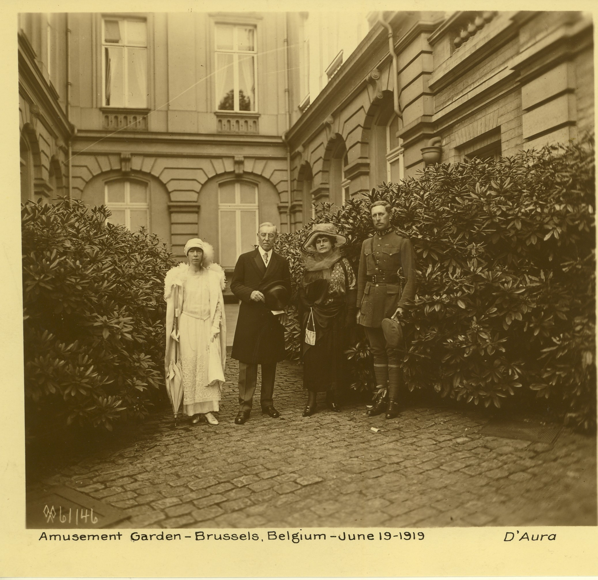 Local Accession Number: 987 Description: President and Mrs. Wilson photographed with the King and Queen the Amusement Garden in Brussels. Photographer: U.S. Signal Corps Source: Unknown Size: 8x10, 7x6.75 Medium: Print, Bllack and White Date: 06-19-1919